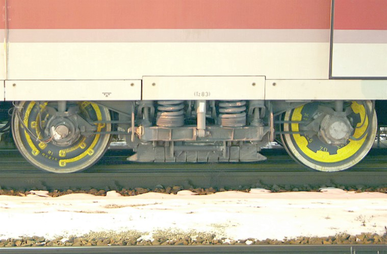 Mesaurement wheelsets on a coach of the ICE S, an experimental German high-speed train.